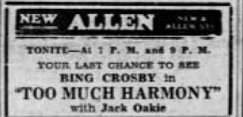 New Allen Theater advertisement for the American film Too Much Harmony (1933) - 9 Feb. 1934 Morning Call, Allentown PA